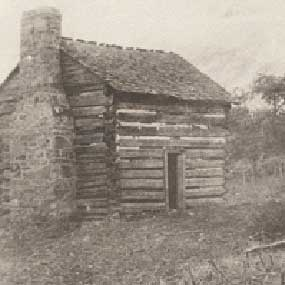 View of the log cabin near the New River belonging to William and Mary Draper Ingles. Cabin was located near the site of present-day Radford, Virginia. Photograph courtesy of the New River Gorge National River site, National Park Service, United States Government.